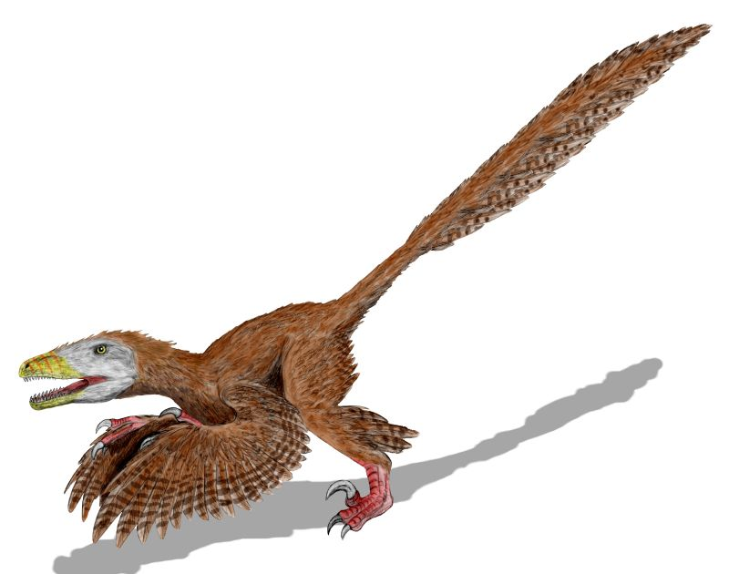 Deinonychus antirrhopus, a theropod from the Early Cretaceous of North America. Pencil drawing